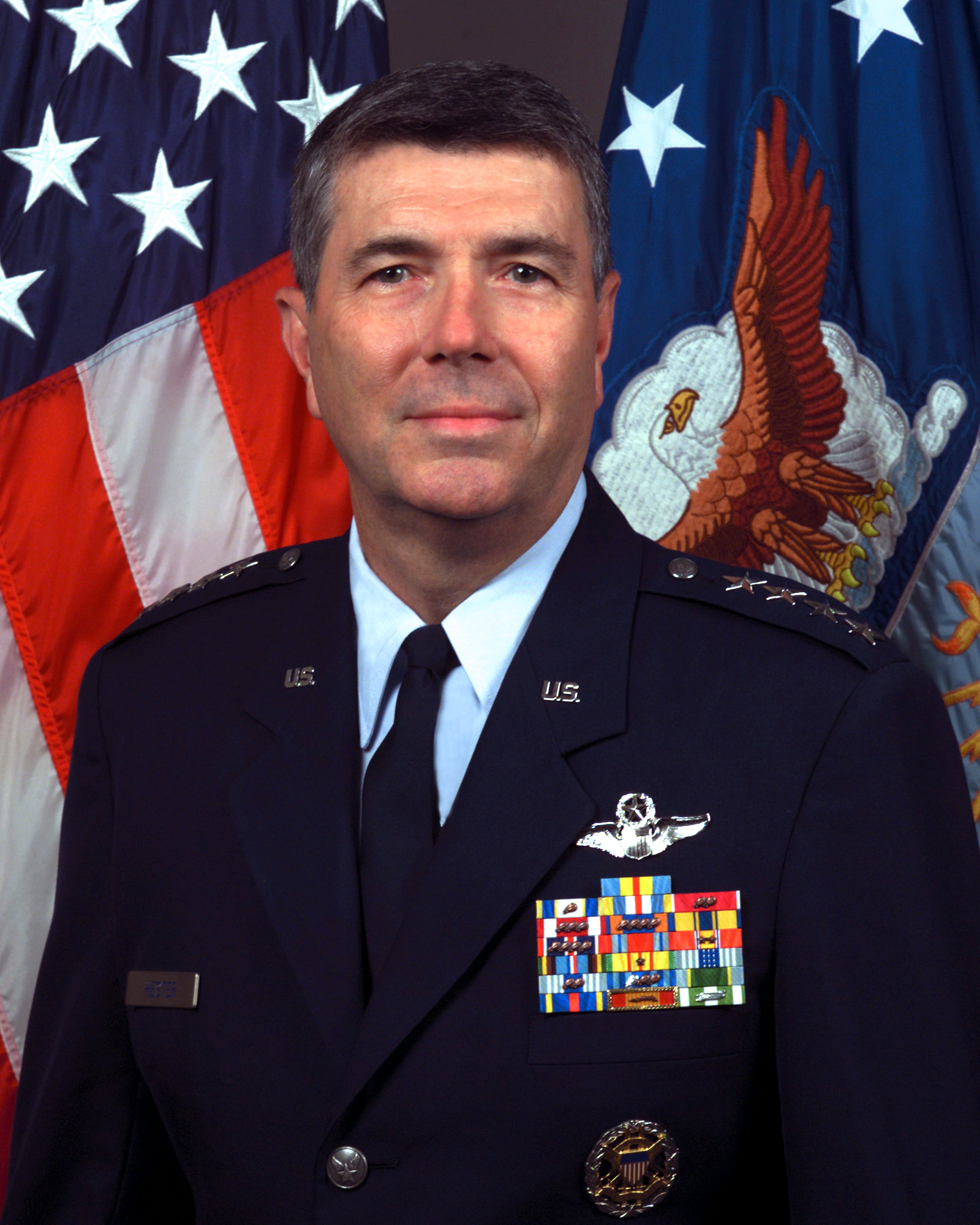 General Paul Hester official portrait from